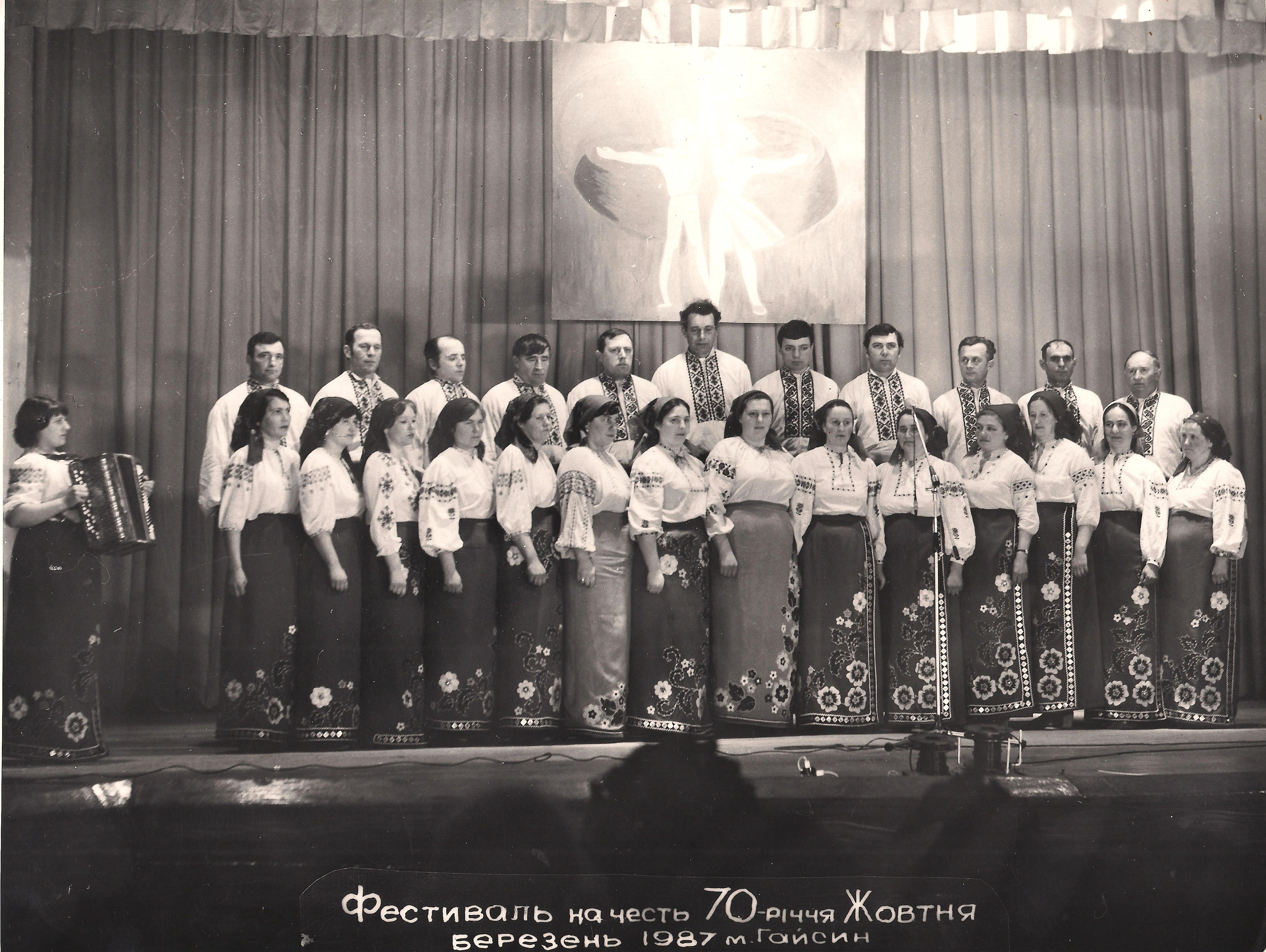 Виступ сільського колективу художньої самодіяльності в районному будинку культури (музичний супровід на баяні – Максименко Надія Олександрівна